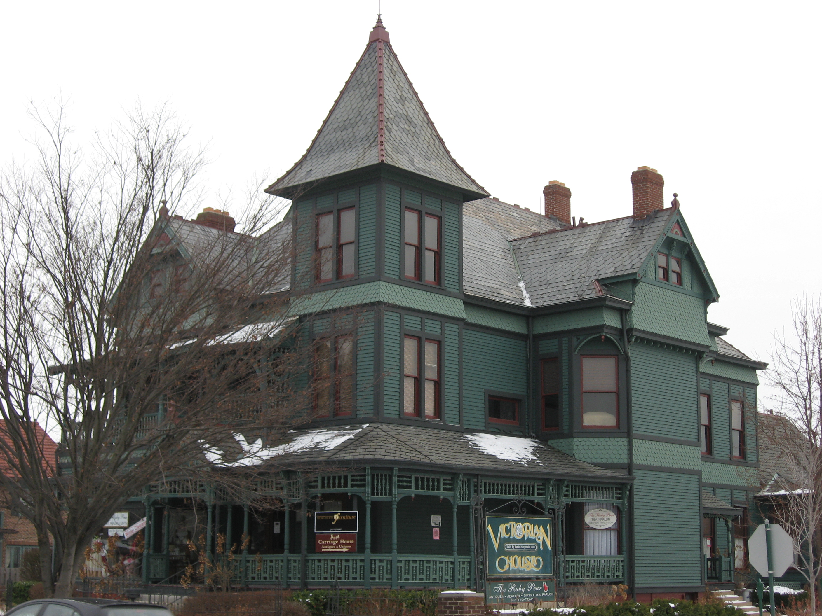 Front and western side of the Daniel Craycraft House, located at 1095 E. Conner Street in Noblesville, Indiana, United States. Built in 1892, it is listed on the National Register of Historic Places, and it is part of a Register-listed historic district, the Conner Street Historic District.